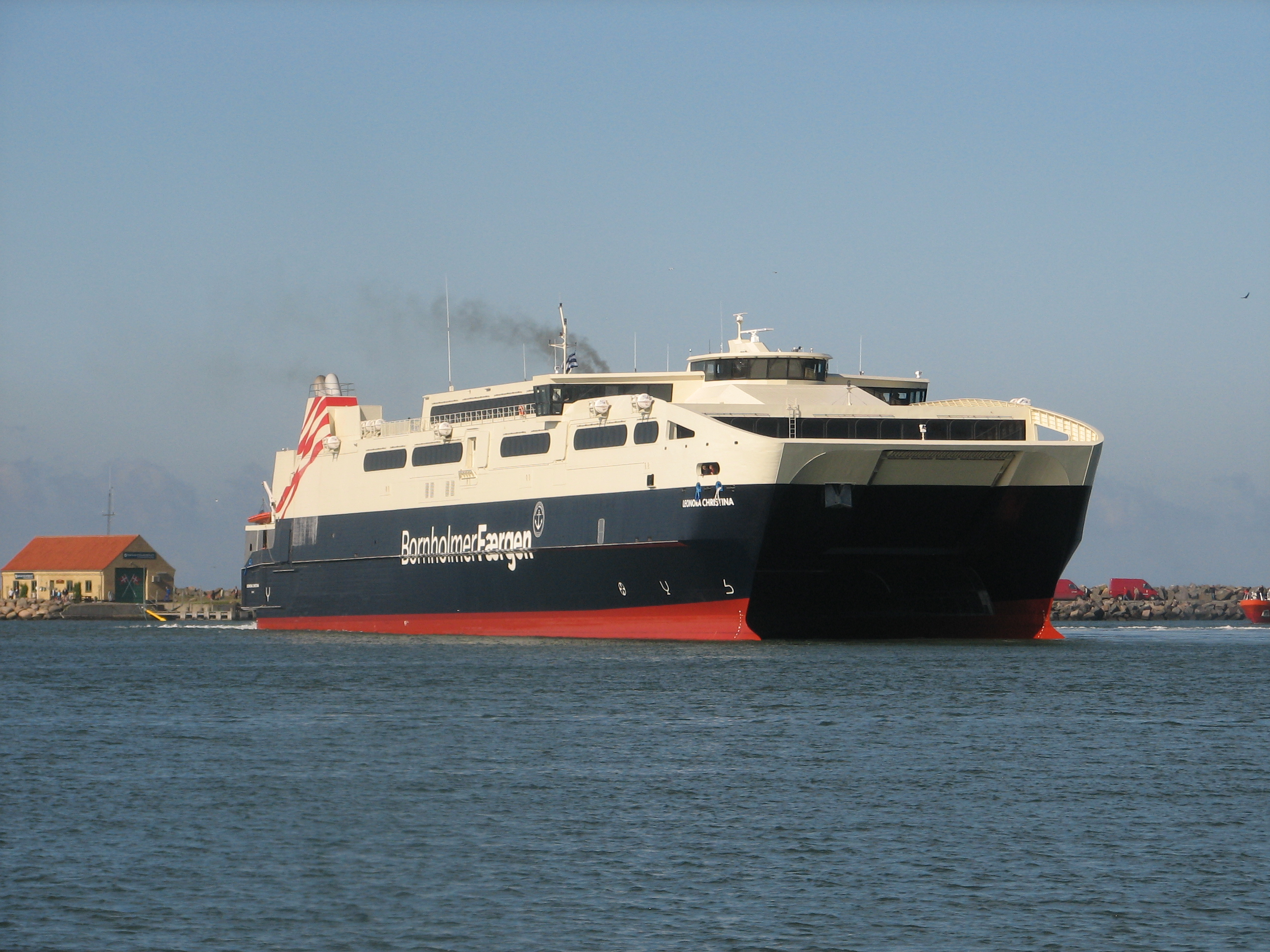 Leonora Christina in the harbour of Rønne